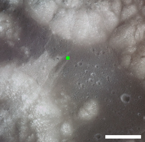 Green dot shows location of Victory, Taurus-Littrow Valley, on the moon. Scale bar at lower right is 5 km.